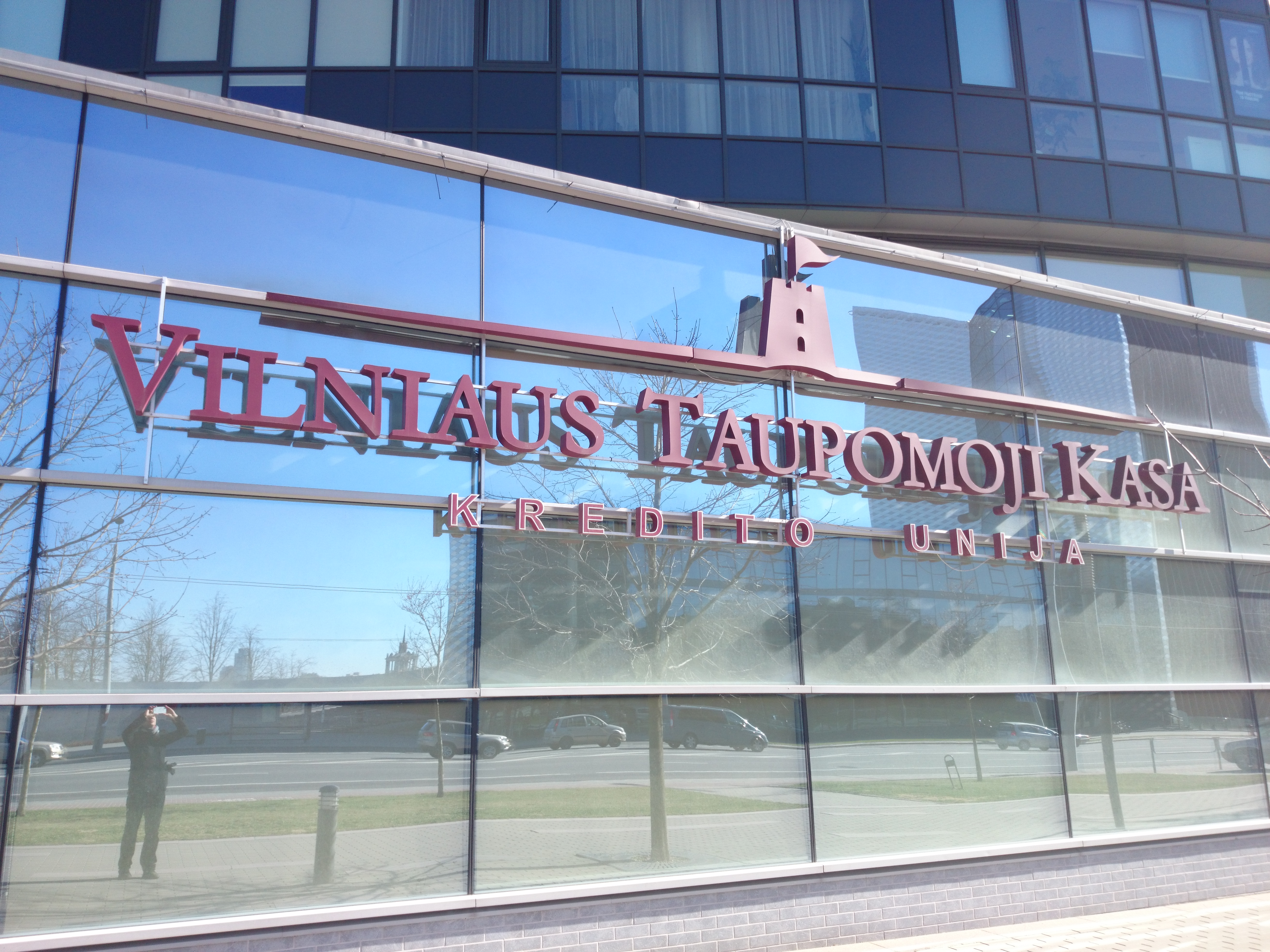 Vilniaus taupomoji kasa